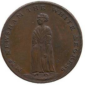 1797 coin celebrating Amelia Lewsham or Newsham (born about 1748, d. in or after 1798), albino white negress